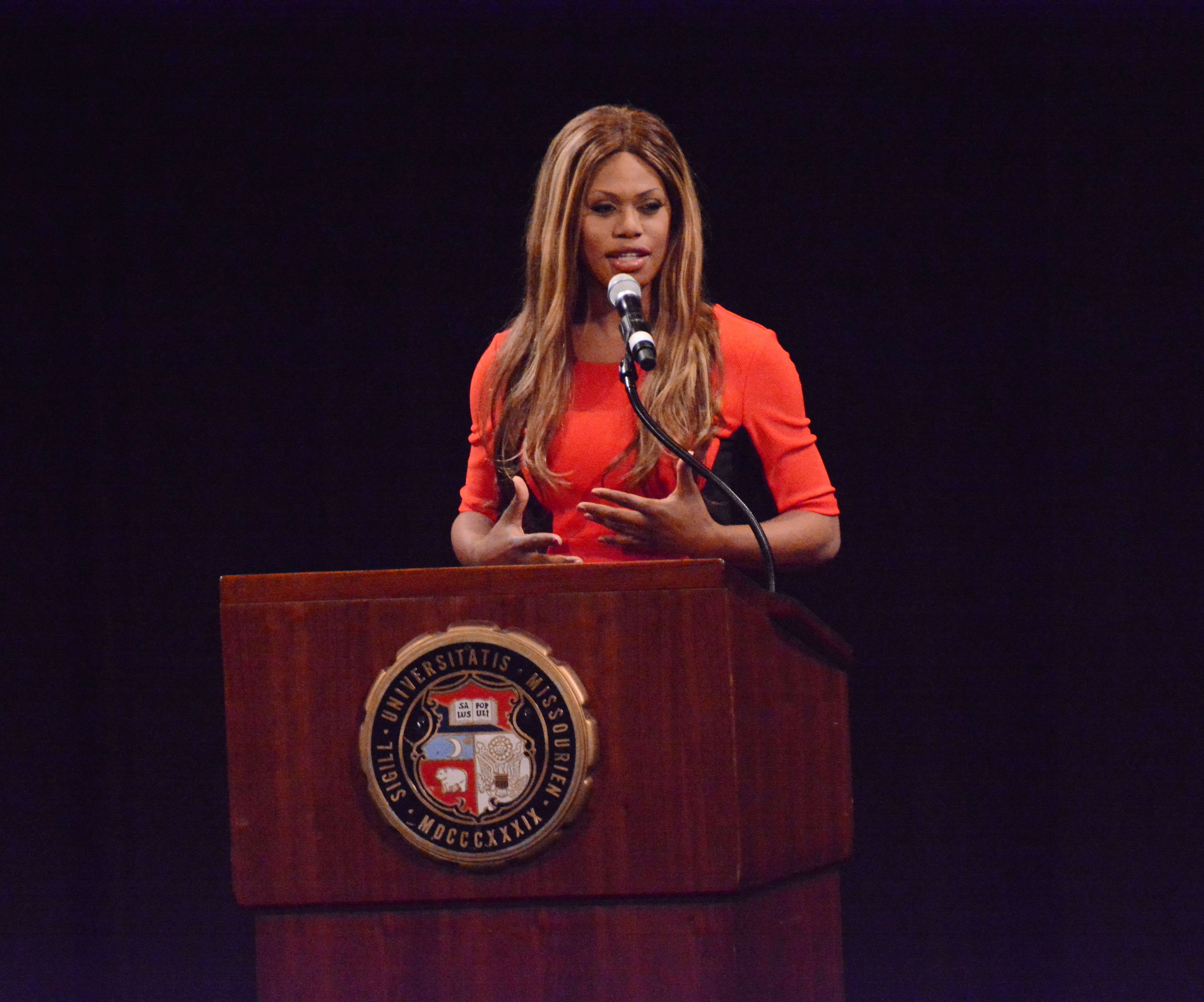 Laverne Cox speaks to a sold out crowd for her national "Ain't I a Woman?" speaking tour on Monday, October 6 in Columbia, Mo. Cox is a transgender woman who advocates for empowering transgender individuals and promotes “living more authentically”. (Taylor Pecko-Reid/ KOMU 8)